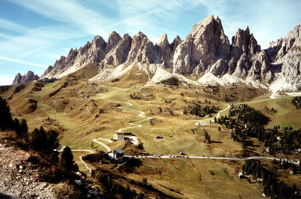 Groedner Joch with Cirspitzen in Italy Foto by Hejkal 2005-09-15